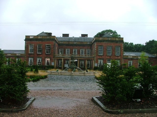 Colwick Hall Hotel. The building is a grade II listed manor. It was built in 1776 although a house was mentioned in the Domesday Book when there was a mill by the Trent. It has been through many owners: the de Colwicks, who held it for a rent of twelve barbed arrows supplied to the king when he came to Nottingham Castle and the Byrons and the Musters. The Bryons held the manor of Colwick for nearly 300 years. The wife of John Musters was Mary Chaworth who was an early love of Lord Byron and featured in his poems. Source: The King's England - Nottinghamshire by Arthur Mee (1946)